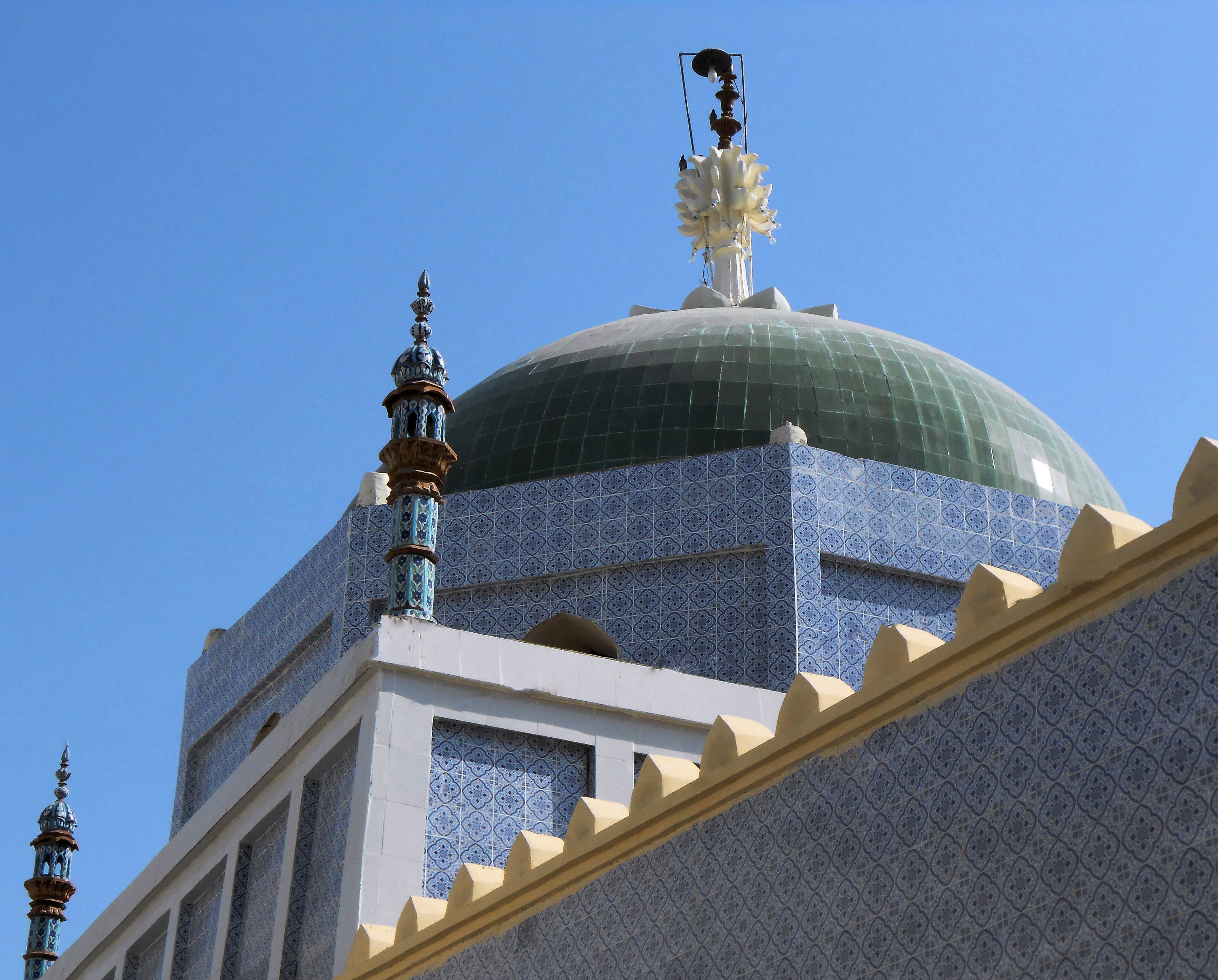 The Famous tomb Of Hazrat Pir Syed Muhammad Shah Jillani Baghdadi Gambat